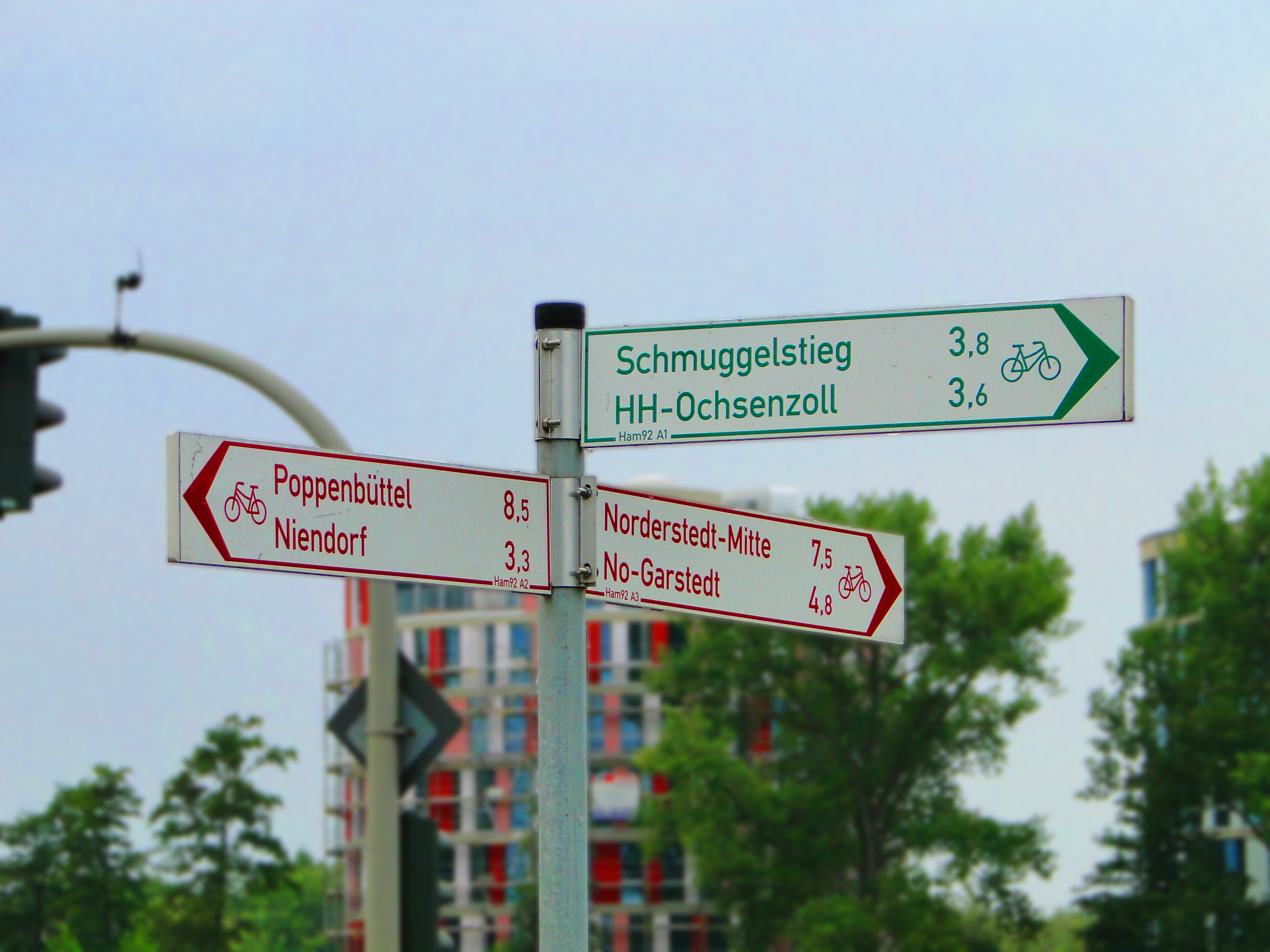 Red/Green Cycling route signs in Hamburg